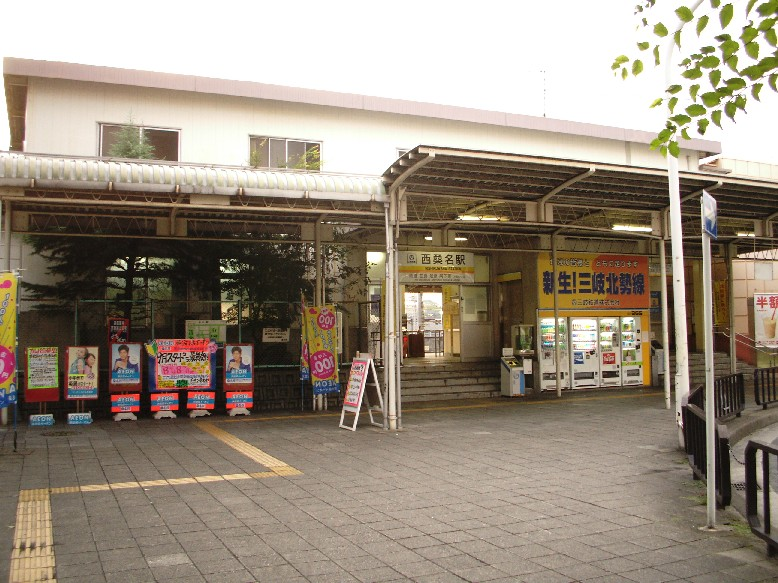 Nishi-Kuwana Station building, origin of the Hokusei Line.